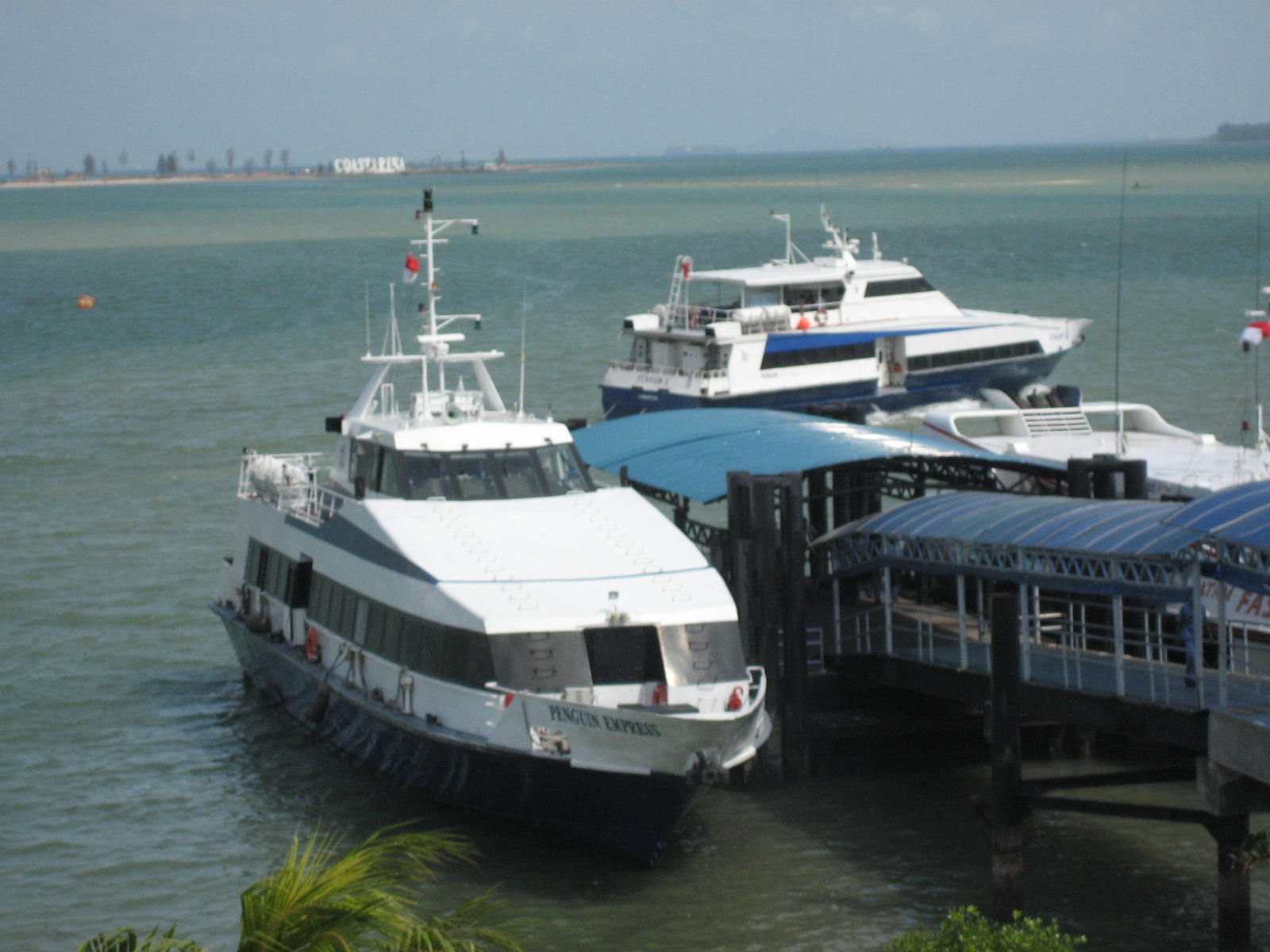 Ferry connecting Batam Center and Singapore and Stulang Laut (Malaysia)